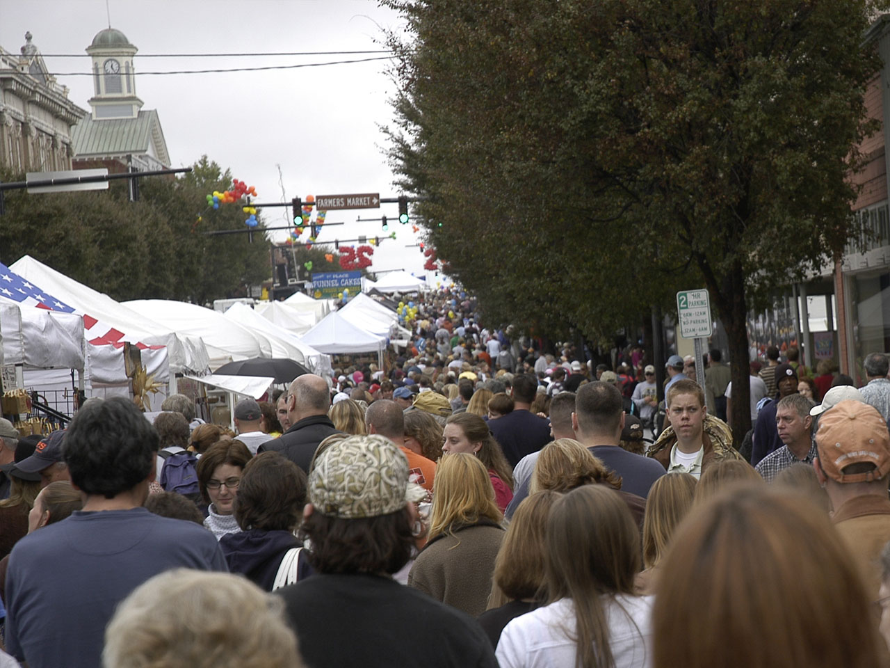 Lexington Barbecue Festival 25th Anniversary, a look at the crowd